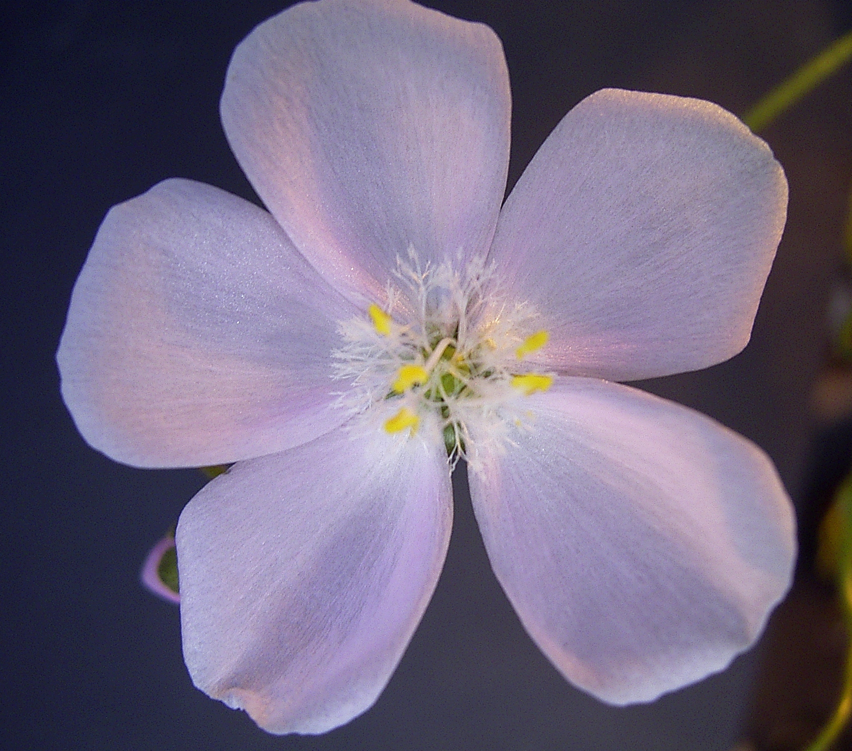 Drosera macrantha